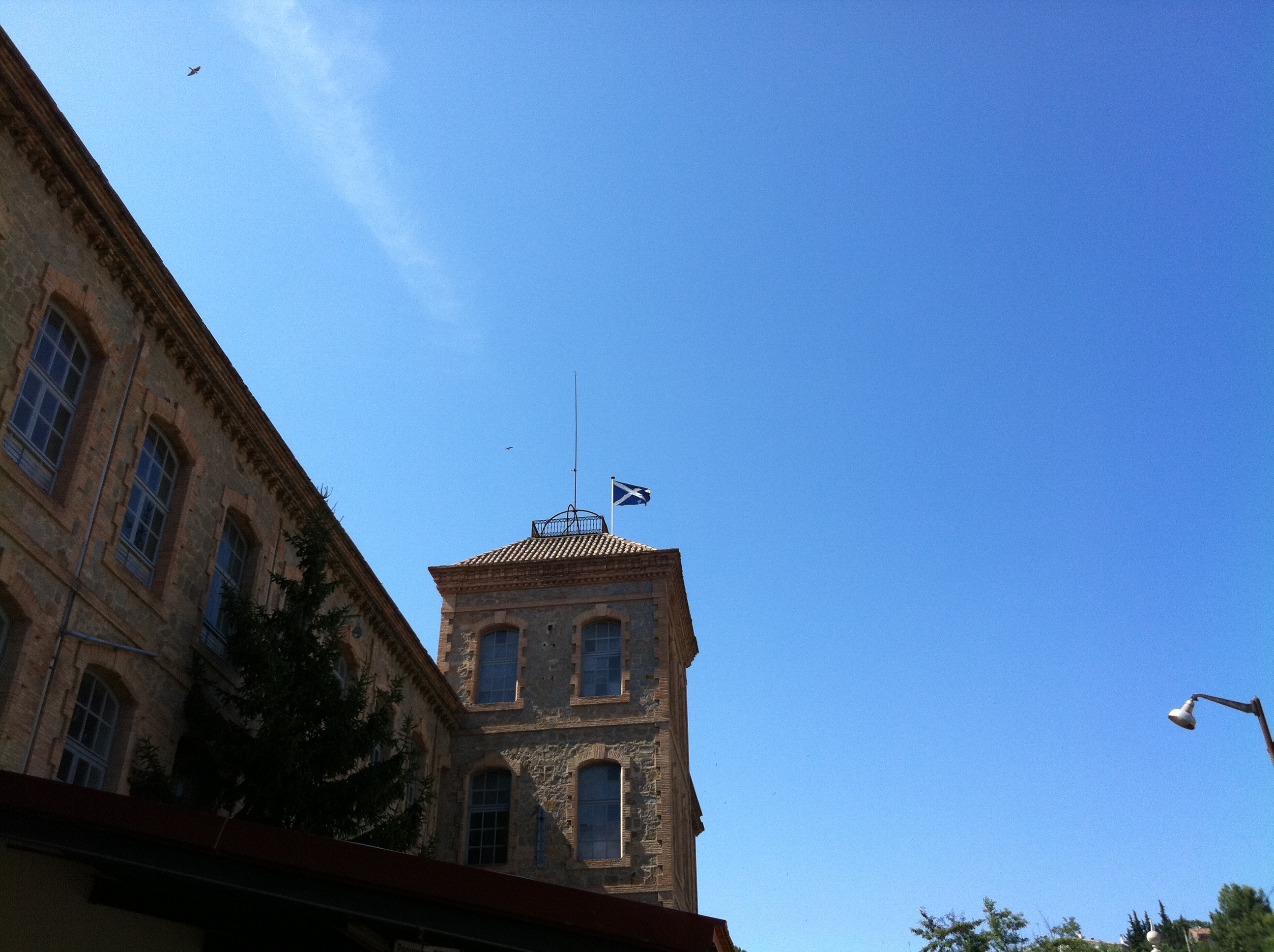 Borgonyà was a former industrial colony in the margin of the river Ter, in Osona, Catalonia